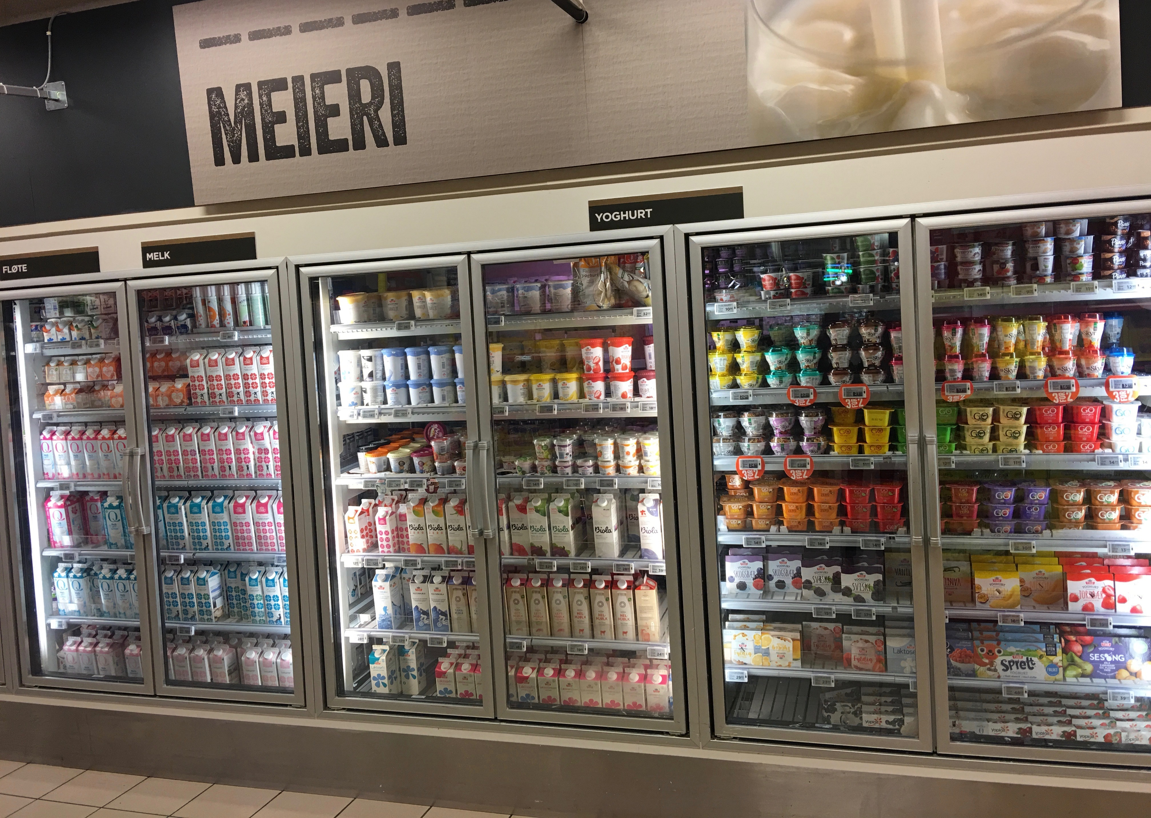 Glass door refrigerator/chiller showcase for milk and yoghurt products for sale in Meny Supermarket at Bergen Storsenter, Norway. Photo 2017-10-03.